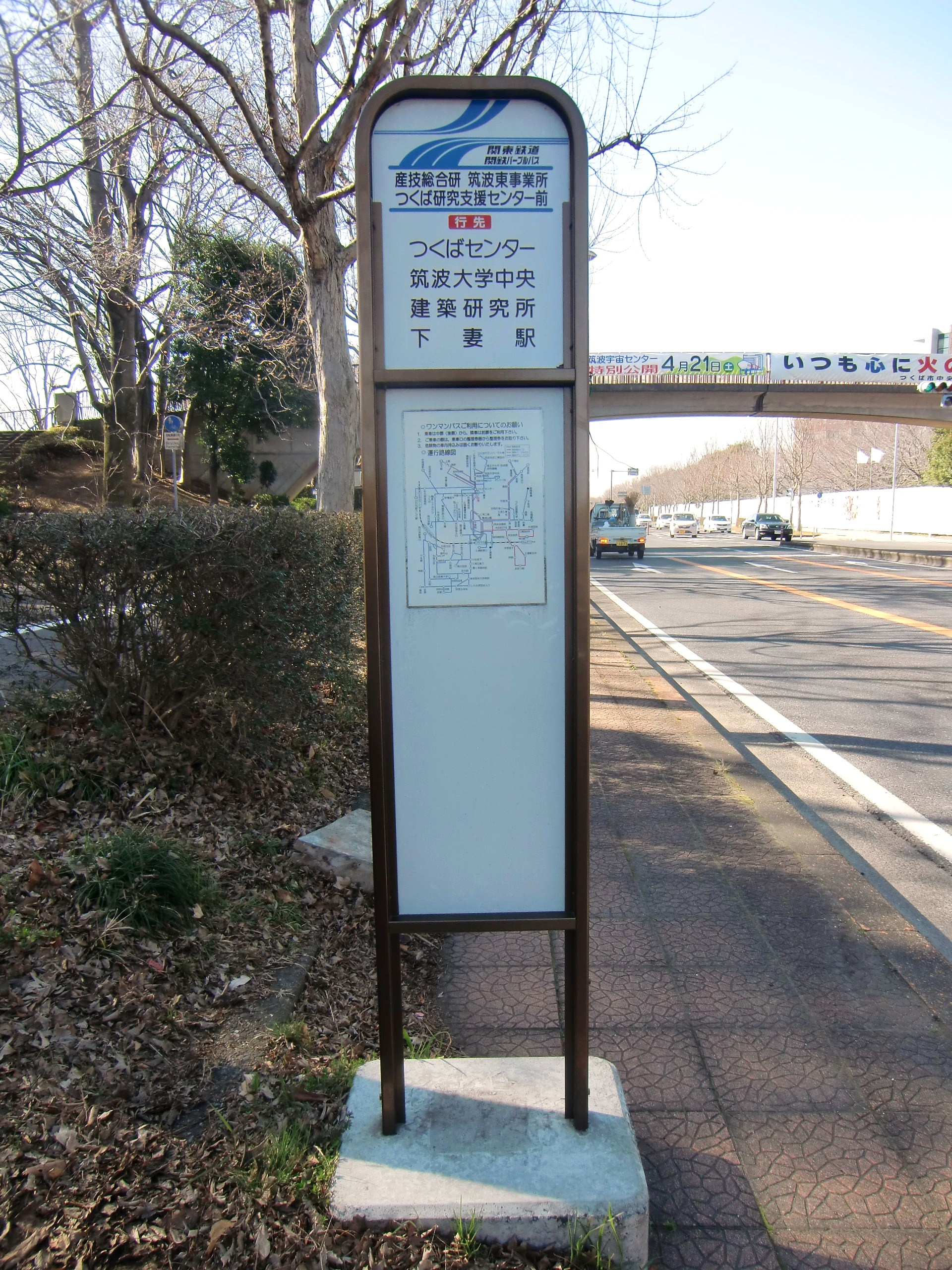 Sangi-sogoken-Tsukuba-higashi-jigyosho-Tsukuba-kenkyu-shien-center-iruguchi Bus Stop in Higashi 1-chome, Tsukuba City, Ibaraki Prefecture, Japan. This is the longest bus stop name in Japan, meaning "Entrance to National Institute of Advanced Industrial Science and Technology Tsukuba East Office and Tsukuba Center"